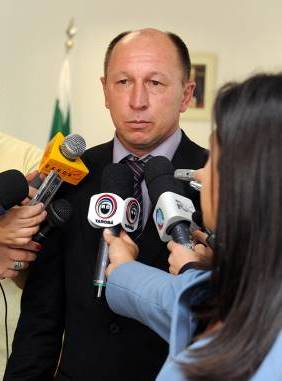 Alcindo Sartori (Kashima Antlers) talked about a charity football game in Curitiba, Brazil.